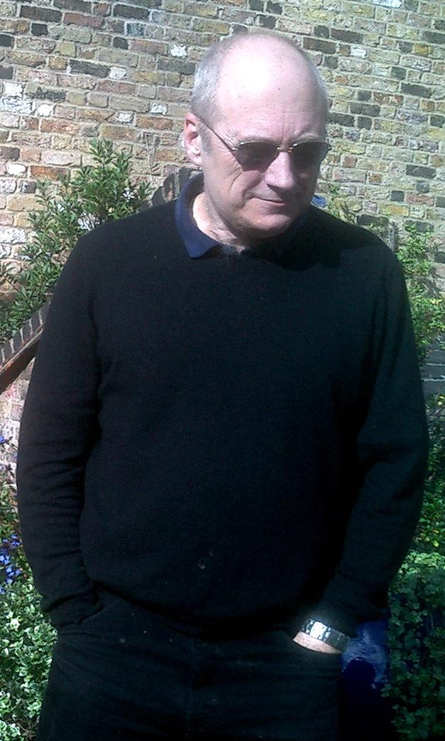 John Clute, Canadian author